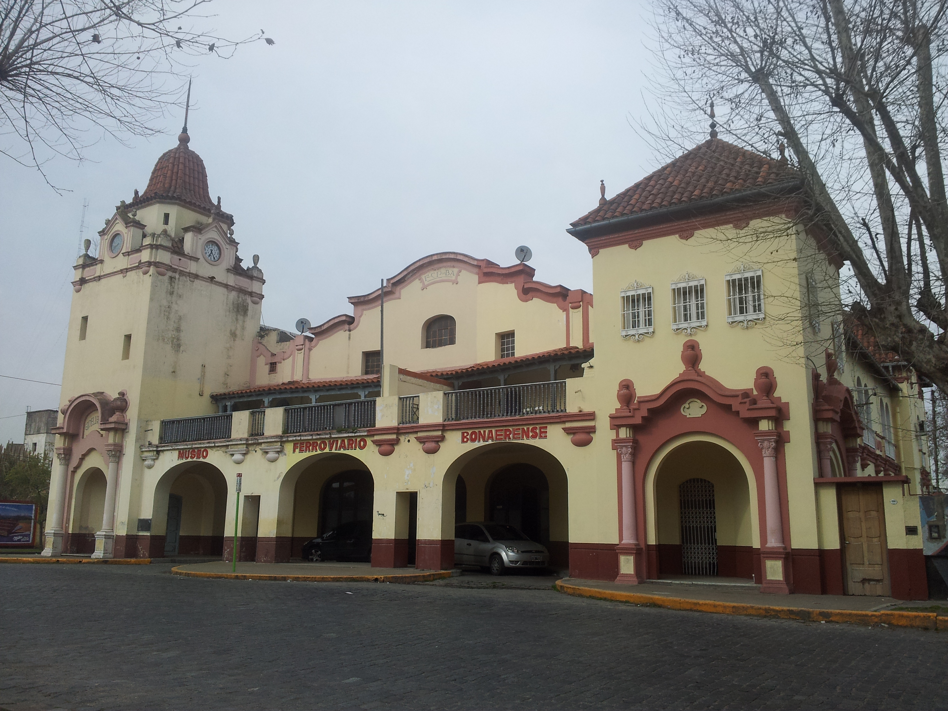 Avellaneda railway terminal, for the Ferrocarril Provincial railway line. Current used as a museum. Front view.